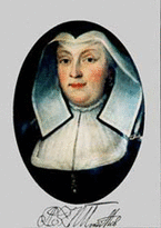 Portret of Charlotte Amalie of Nassau-Dillenburg 1680-1738